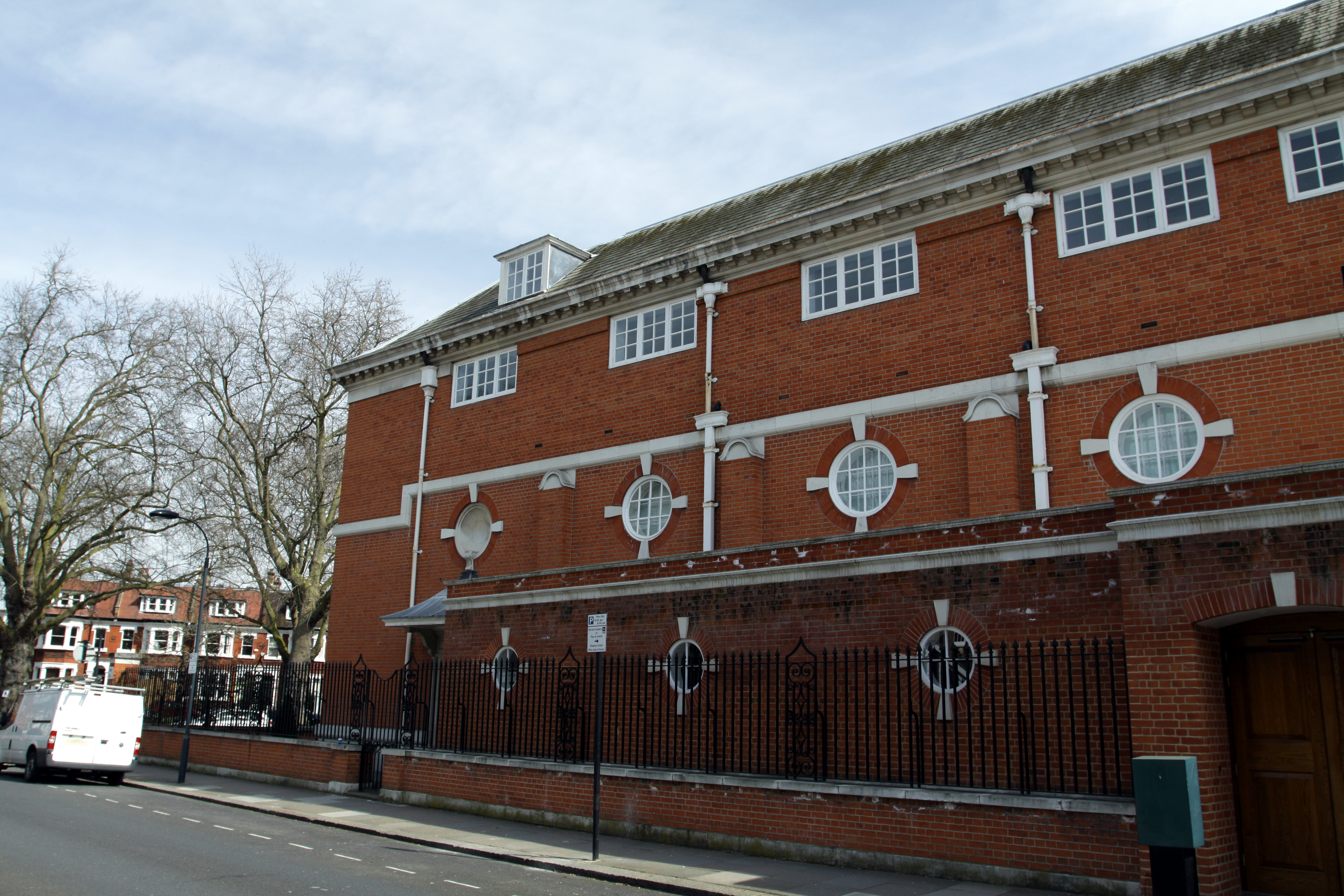 St Paul's Girls' School is an independent day school for girls, located in Brook Green, Hammersmith in the London Borough of Hammersmith and Fulham, London, England, Great Britain: side view of buildings from Rowan Road. The making of this file was supported by Wikimedia UK.